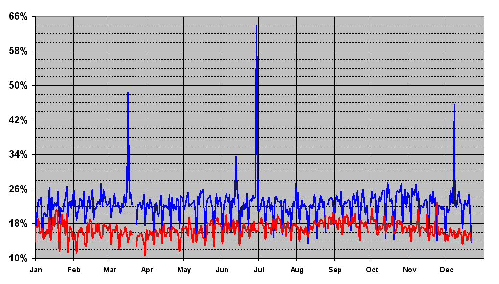 Daytime television ratings for 2008 in the Philippines: Blue = GMA Red = ABS-CBN The charted points represented the TV program that had the highest rating for that station for that day.